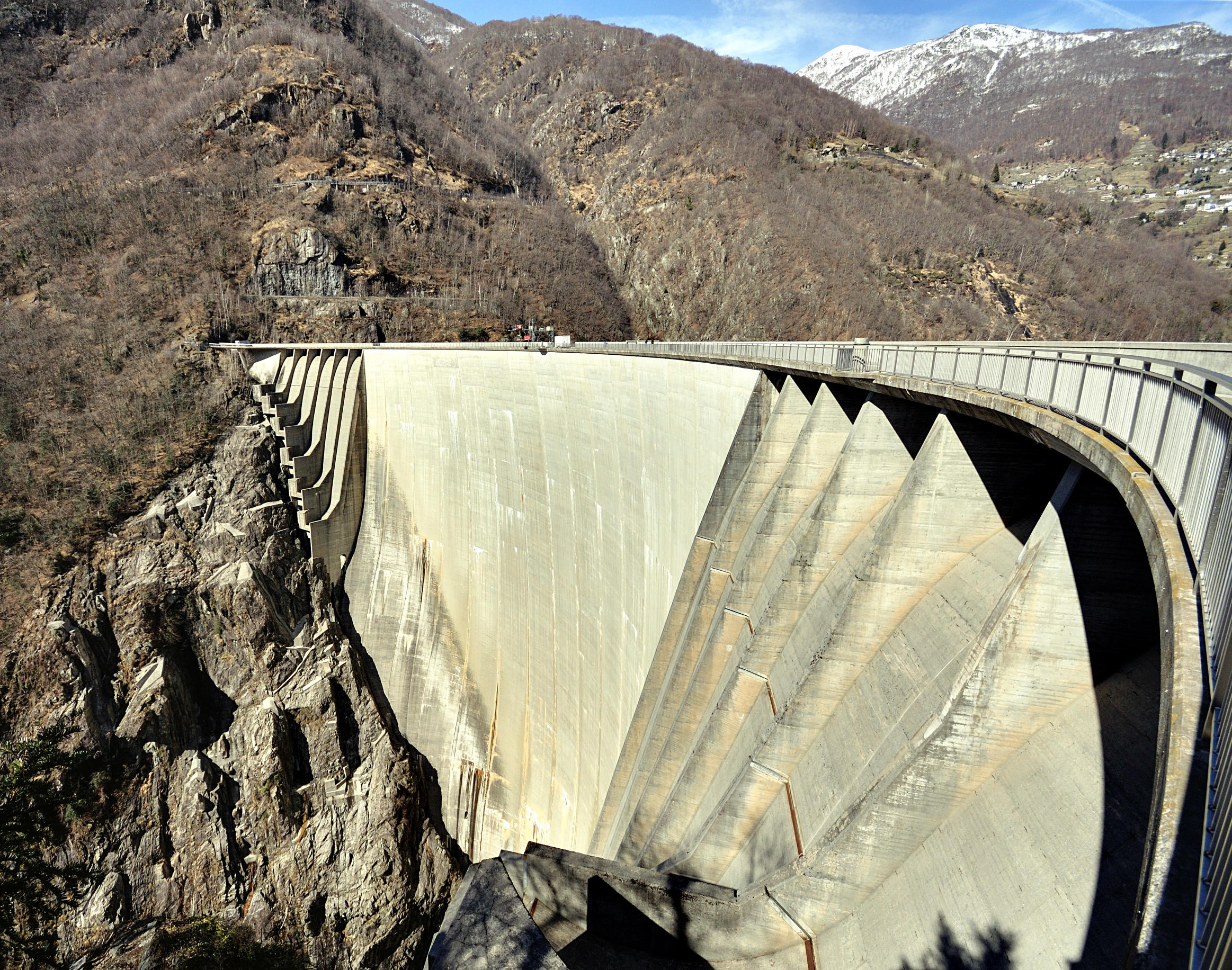 Valley Verzasca, Switzerland: Contra-Dam